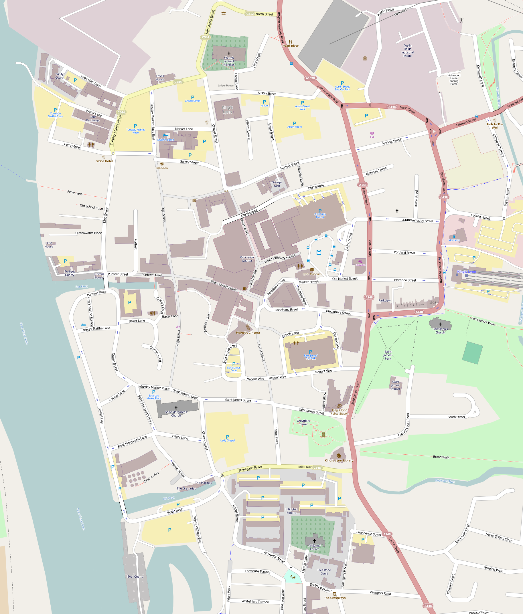 Map of King's Lynn Geographic limits: N: 52.7584° S: 52.7482° W: 0.3906° E: 0.4050°